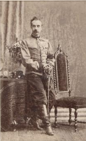 Plate 12 Photograph album of German and Austrian scientists. Carl Weeber, Pforzheim; Friedrich von Hellwald, Cannstadt; Dr. Adolf Richter, Pforzheim; Buhrke, Magdeburg; Dr. Ahrendts, Schmiedeberg; W. Breitenbach, Unna; Rinke, Düsseldorf (Dusseldorf); A. Schwartz, Oldenburg; N. Tafel, Adrianopel (Adrianople).